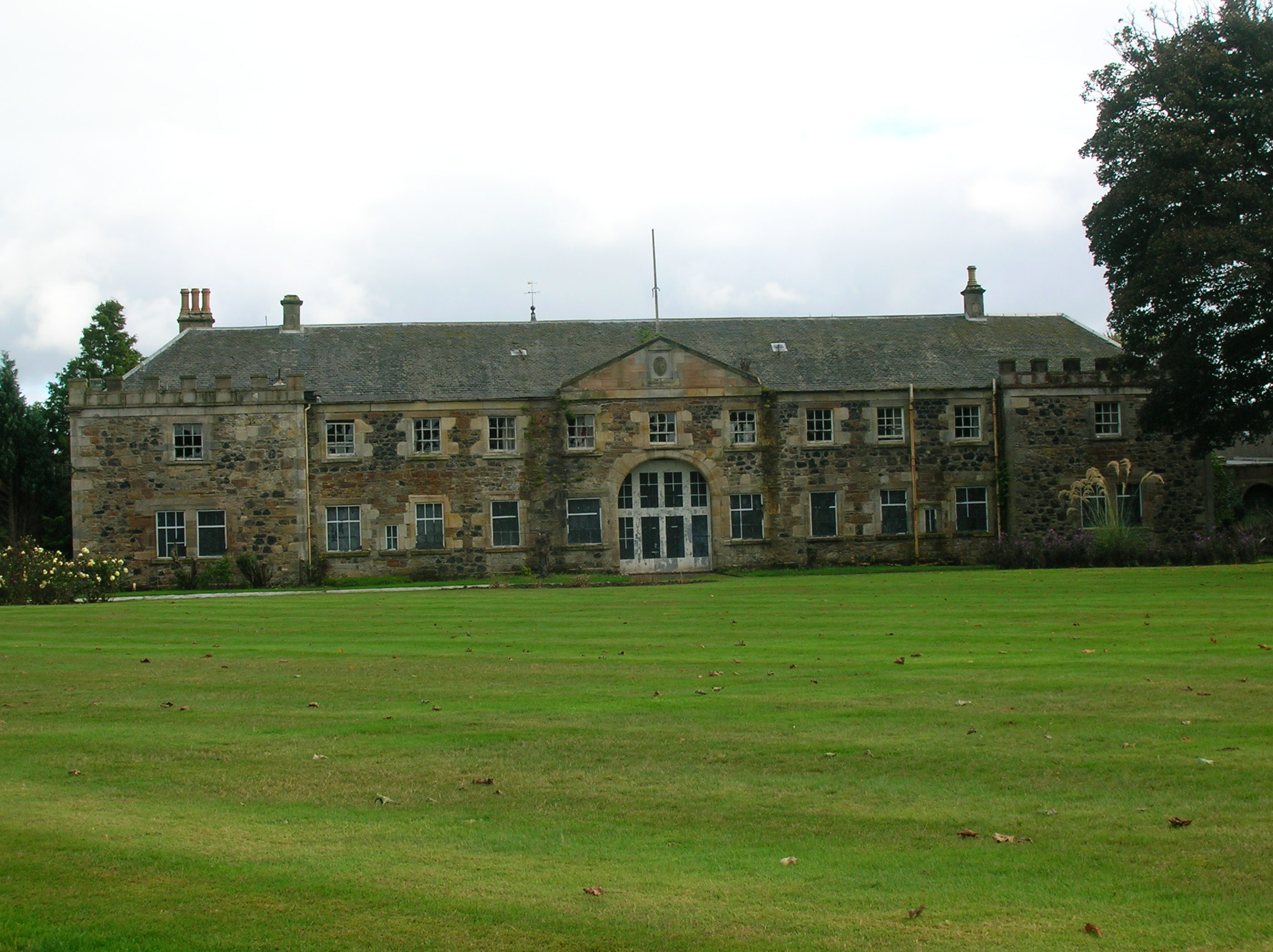 The old offices/coach house/ stables, Eglinton Country Park, Kilwinning, North Ayrshire, Scotland.